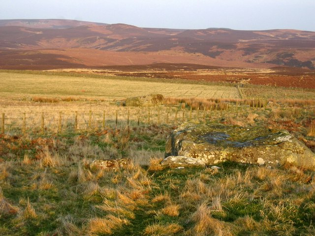 Carved boulders on Old Bewick Hill